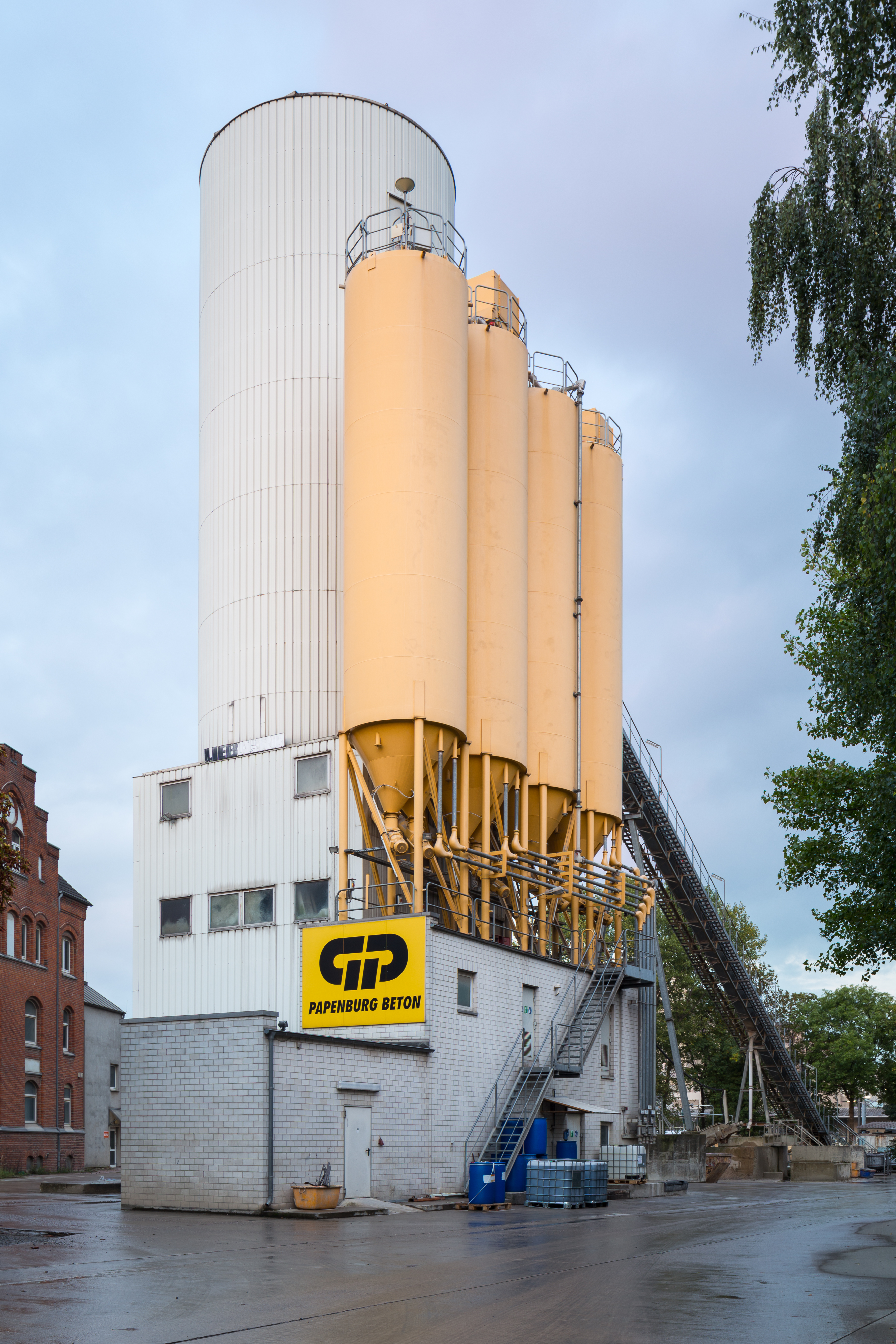 Cement silos of Günter Papenburg Beton company located at Lohweg in Misburg-Sued quarter of Hannover, Germany.